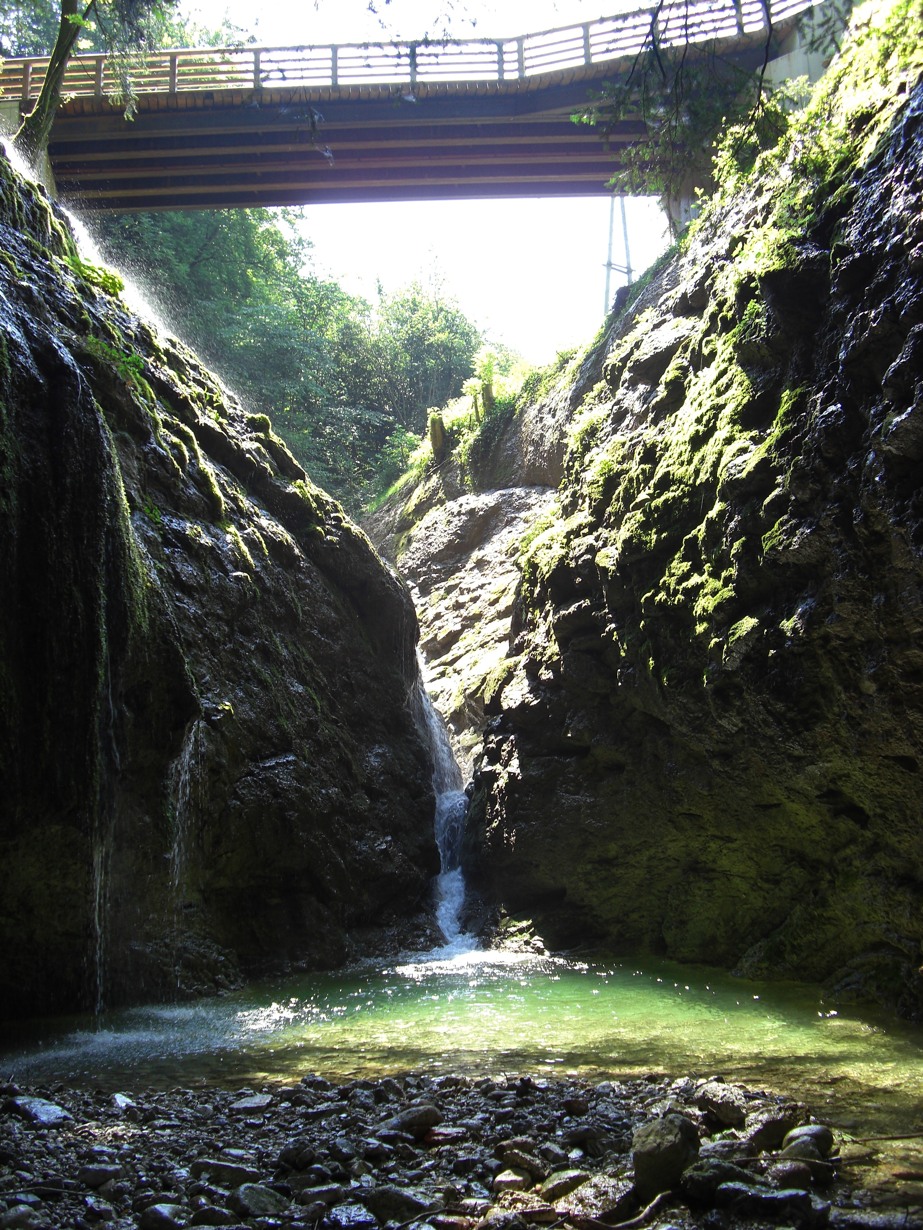 Kehlbach in Elsbethen